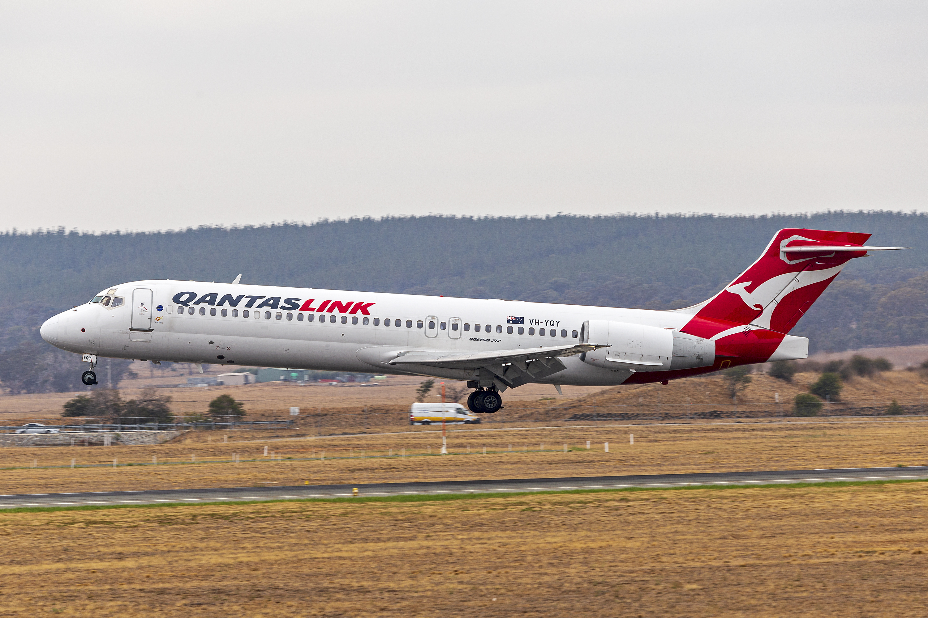 QantasLink (VH-YQY) Boeing 717-2K9 landing at Canberra Airport.